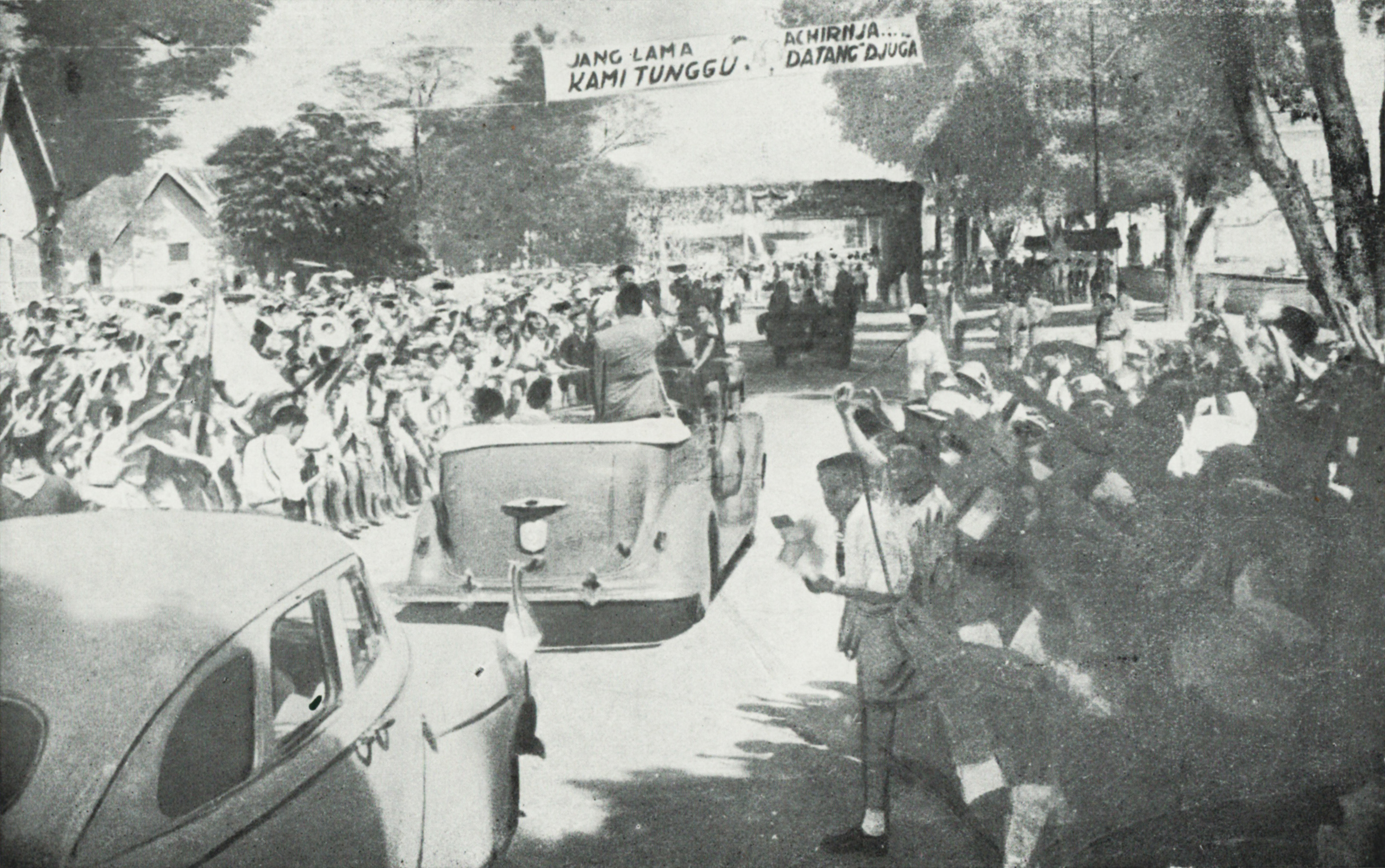 Sukarno's return to Yogyakarta from his exile in Bangka, Kota Jogjakarta 200 Tahun, plate before page 73